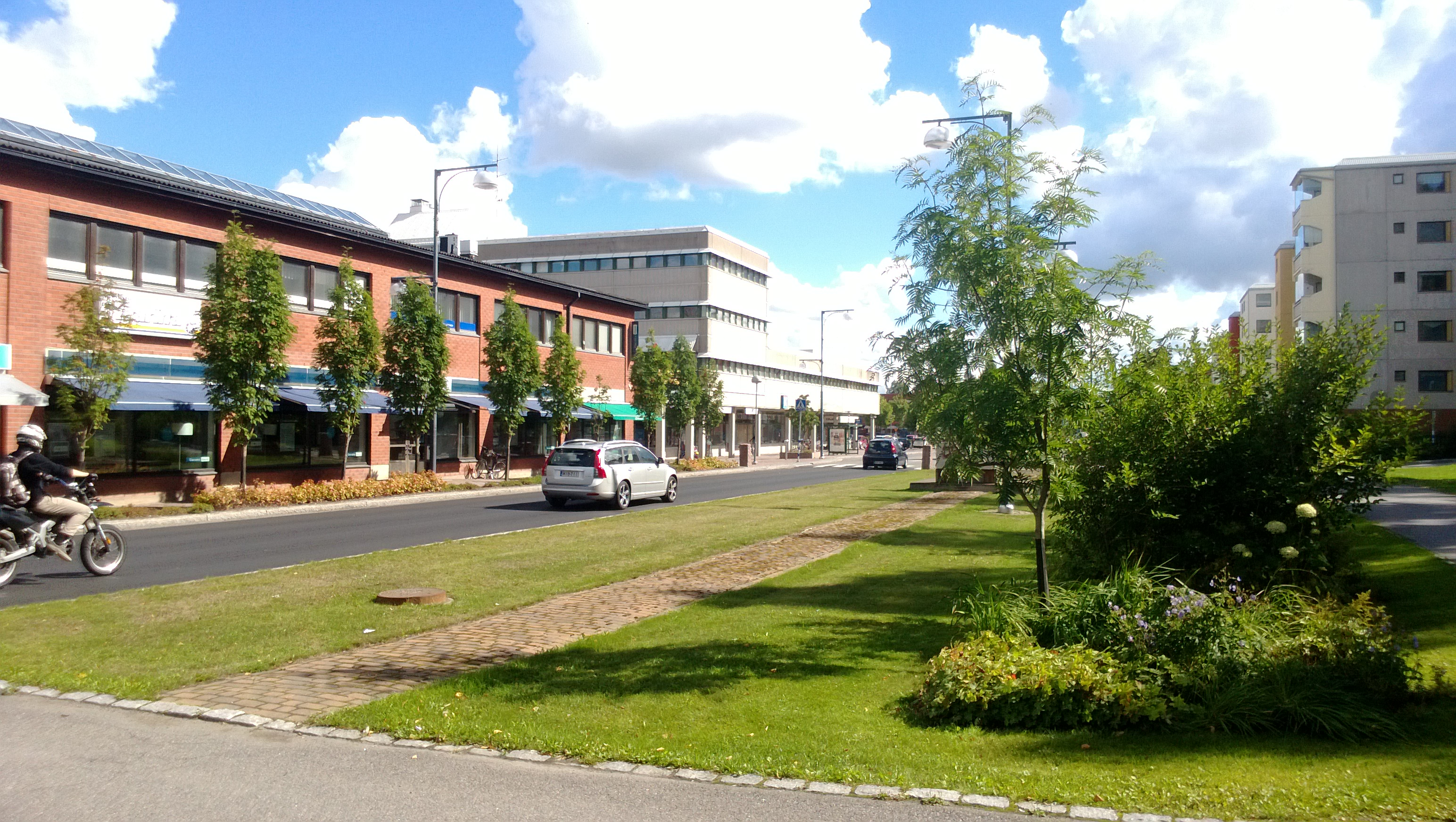 Centre of Kaarina, Finland in summer